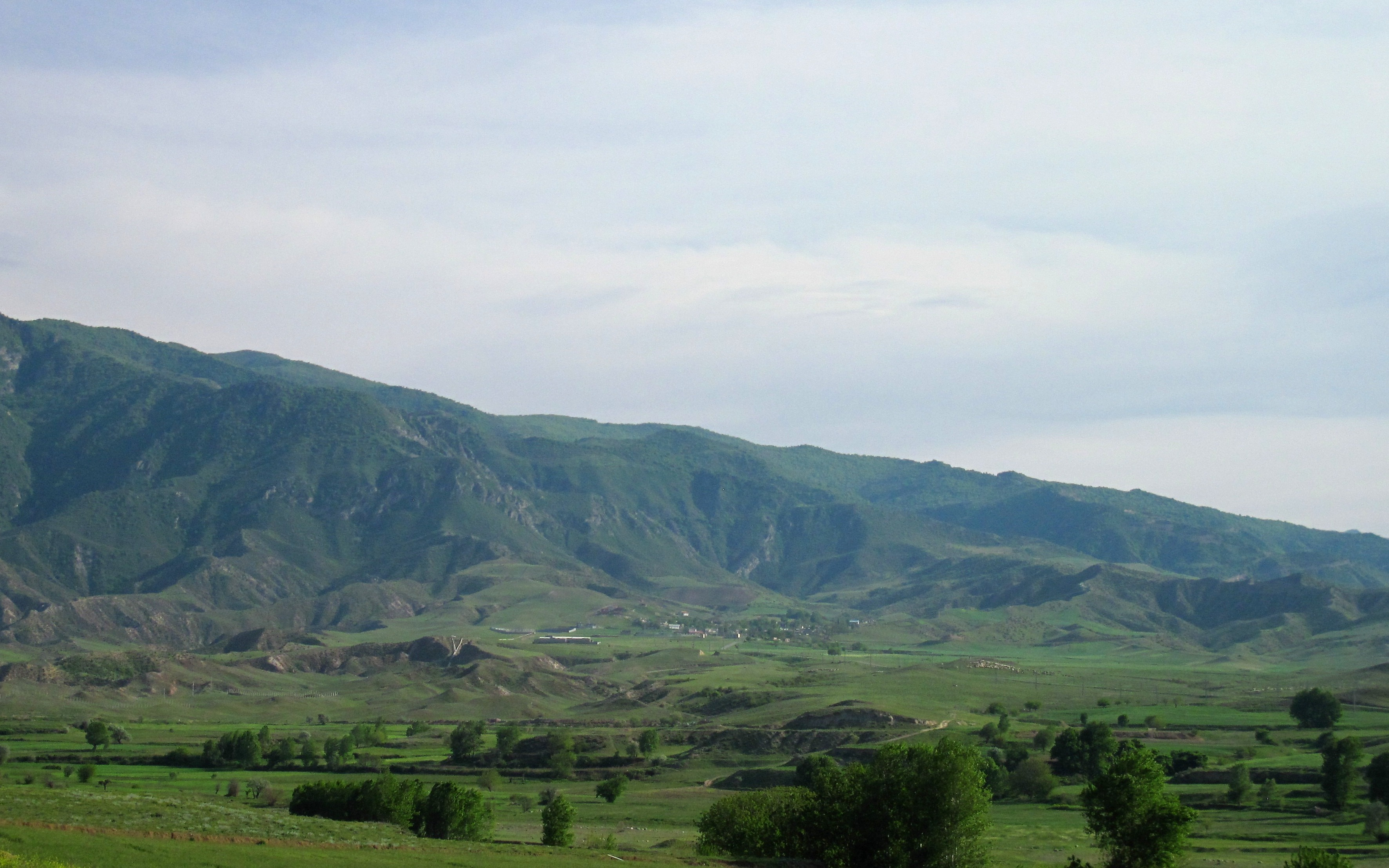 Ravanbakhsh Leysi has taken this photo for Heydarkanlu wikipage.